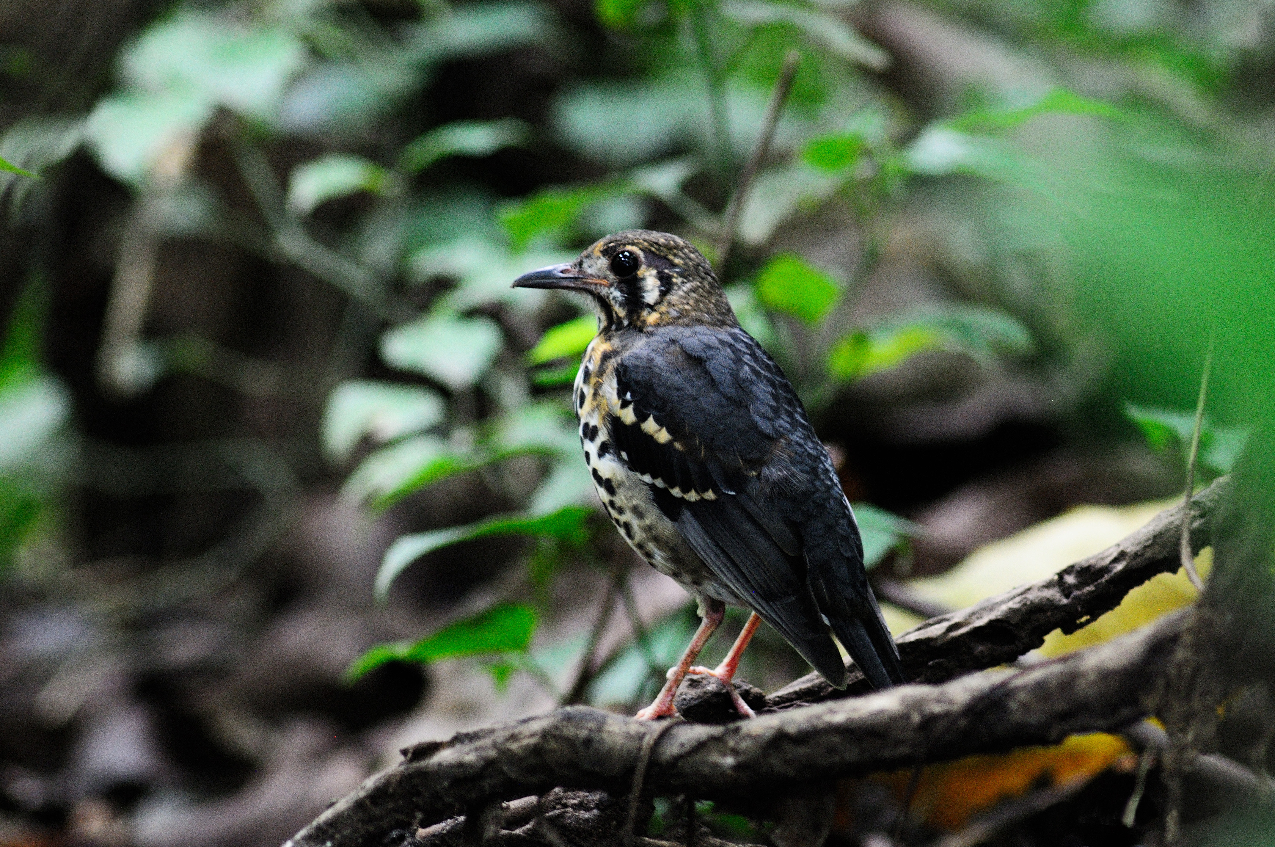 Ashy Ground Thrush (Geokichla cinerea) Juvenile - Endemic LMEP, Quezon City